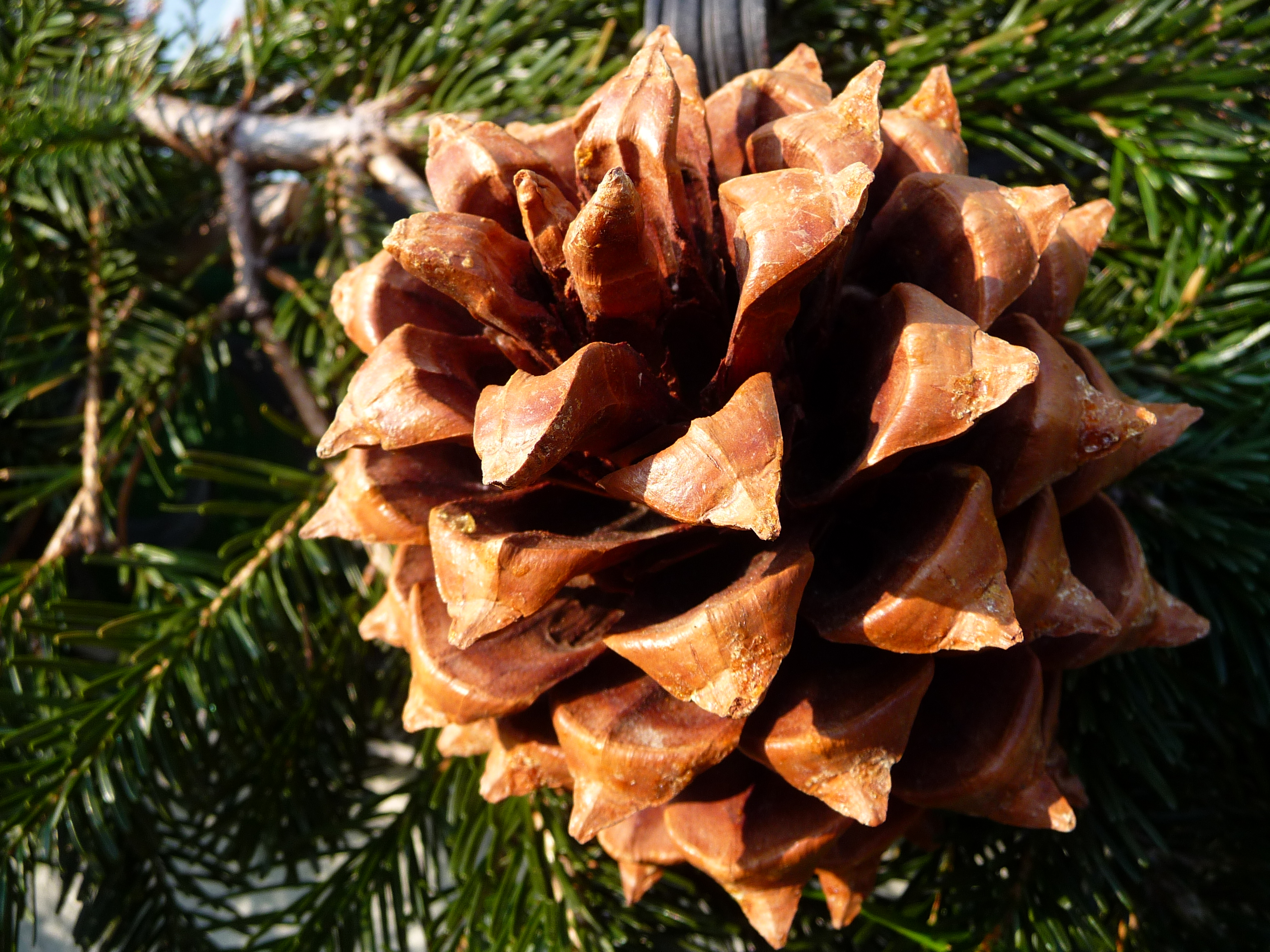 open cone of Pinus sabiniana, with Abies nordmanniana foliage behind